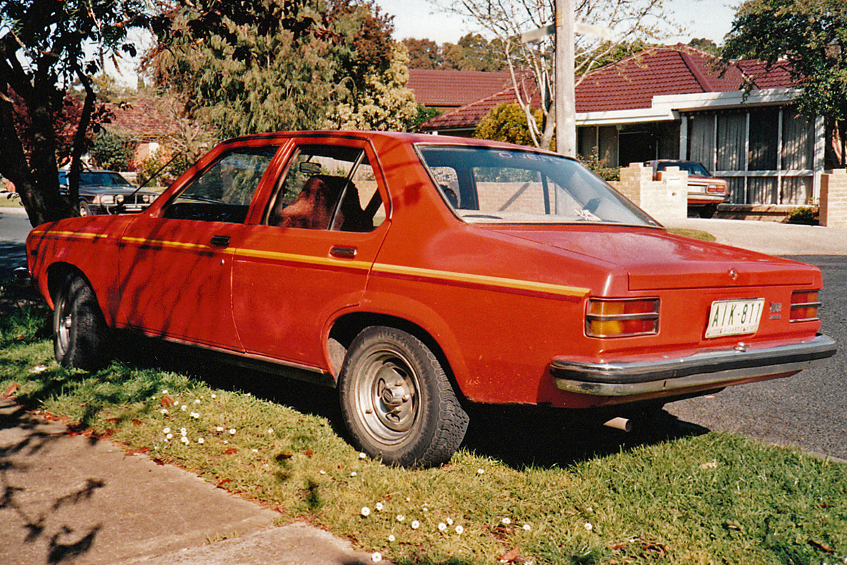 1975 Holden LH Torana sedan (Maranello Red; 3300 cc (202 cu in) straight-six engine, 4-speed manual), photographed in Burwood, Victoria, Australia.